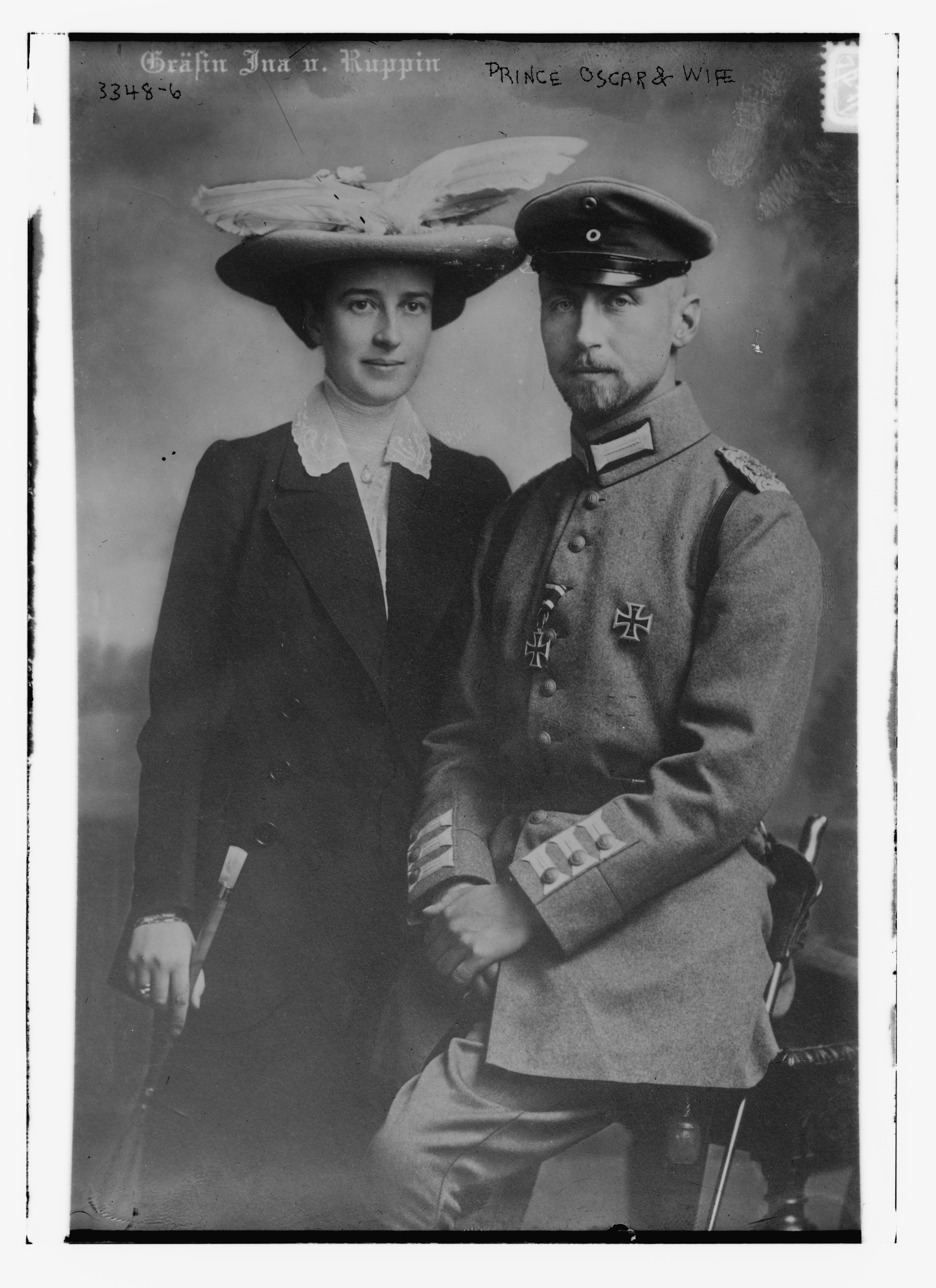 Title: Prince Oscar & wife Abstract/medium: 1 negative : glass ; 5 x 7 in. or smaller.